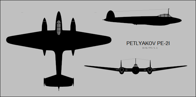 Plan-view silhouette of the Petlyakov Pe-2I dive bomber